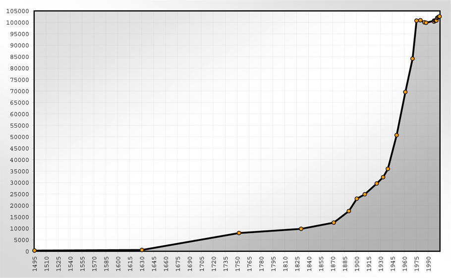 This image shows the population statistics of Erlangen (Germany).